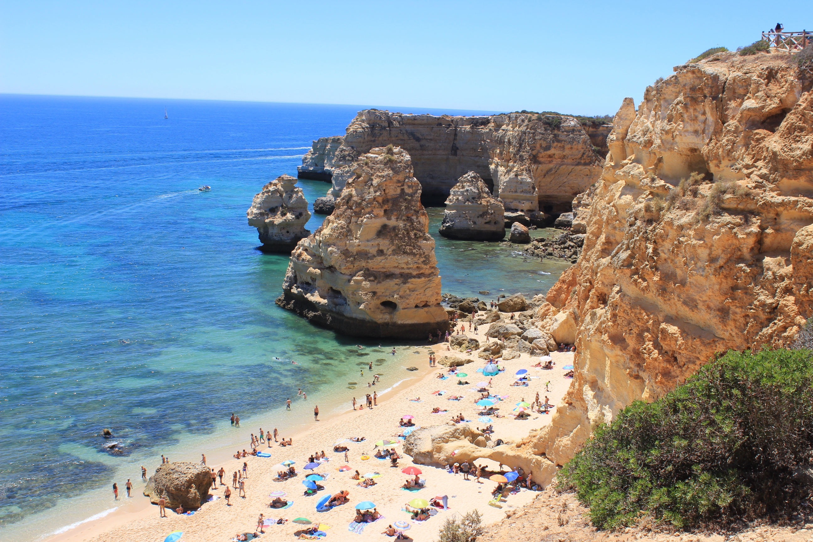 Praia da Marinha, Algarves, Portugal